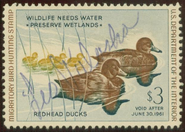 1960 Duck stamp created by John A. Ruthven